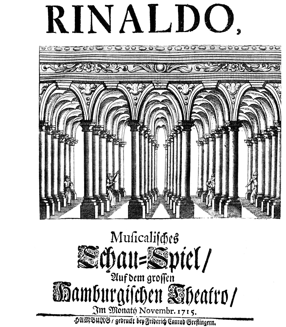 Titel page of George Frederick Handel's Rinaldo, Hamburg 1715, using a woodcut showing the Basilica Cistern of Constantinople after a drawing by Cornelius Loos (Ingenieuroffizier)